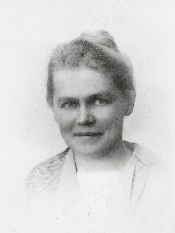 The photo is from Arkivverket. Portrait of Norwegian nurse and missionary Bodil Biørn.